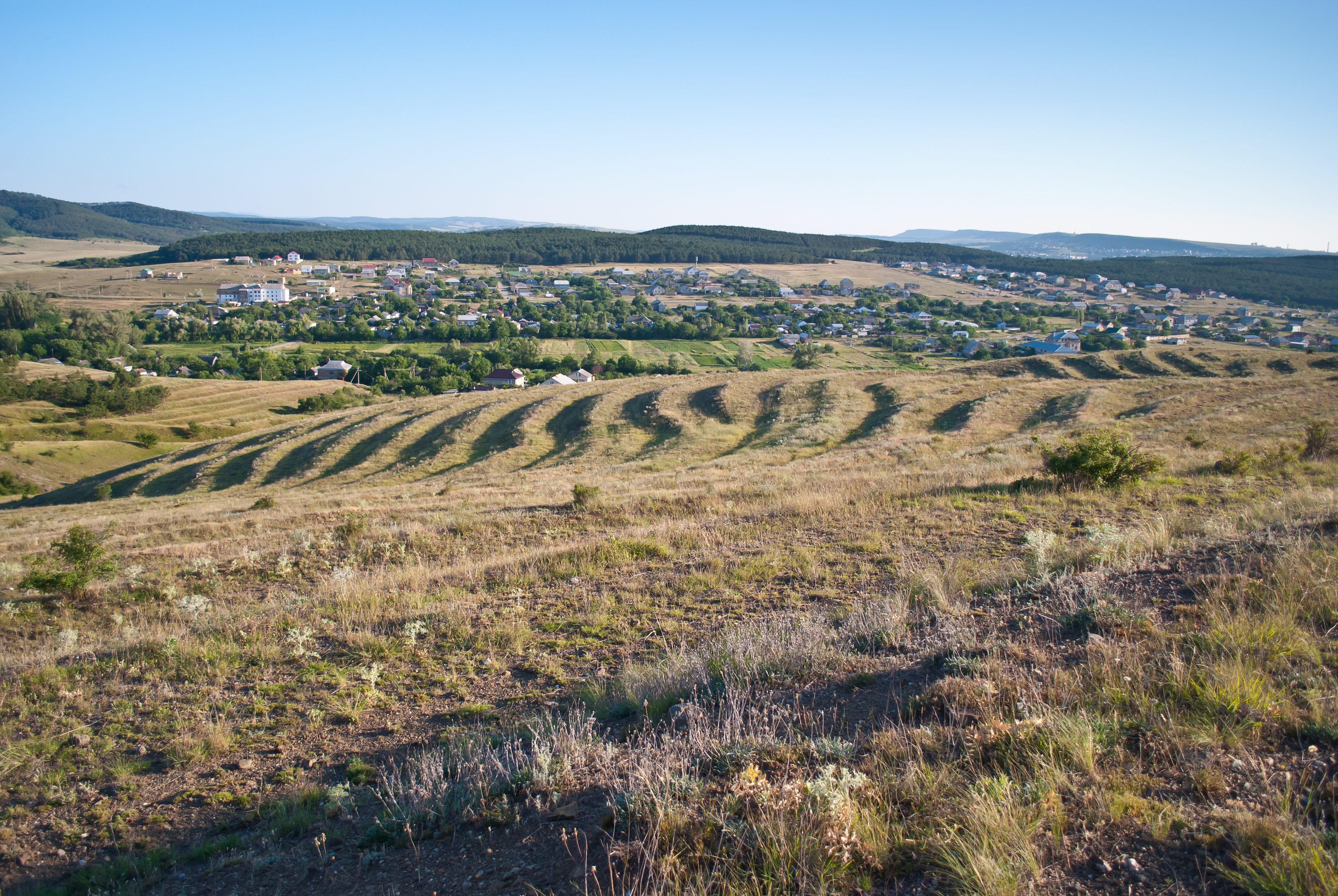 The middle part of Strogonovka village (Simferopol Raion, Crimea).